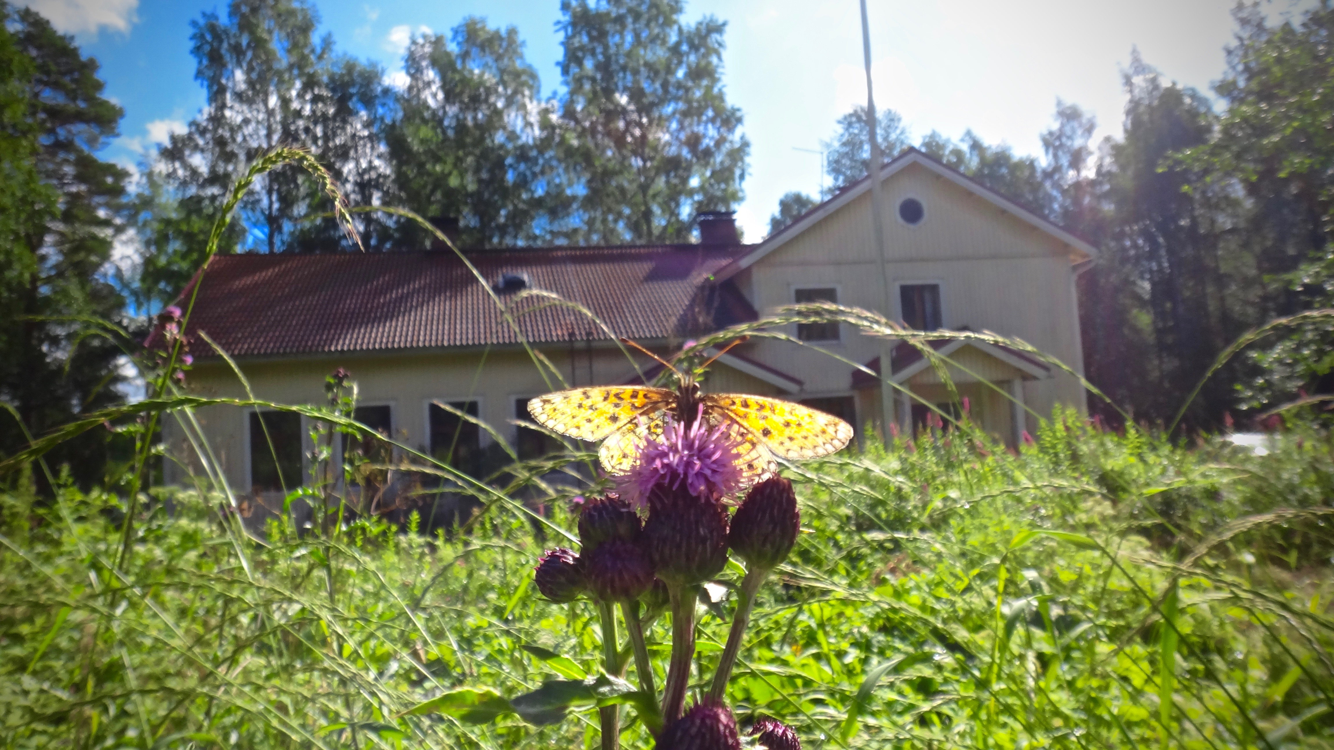 Old Pyhalahti Elementary School Yard on Pyhälahti beach Keitele